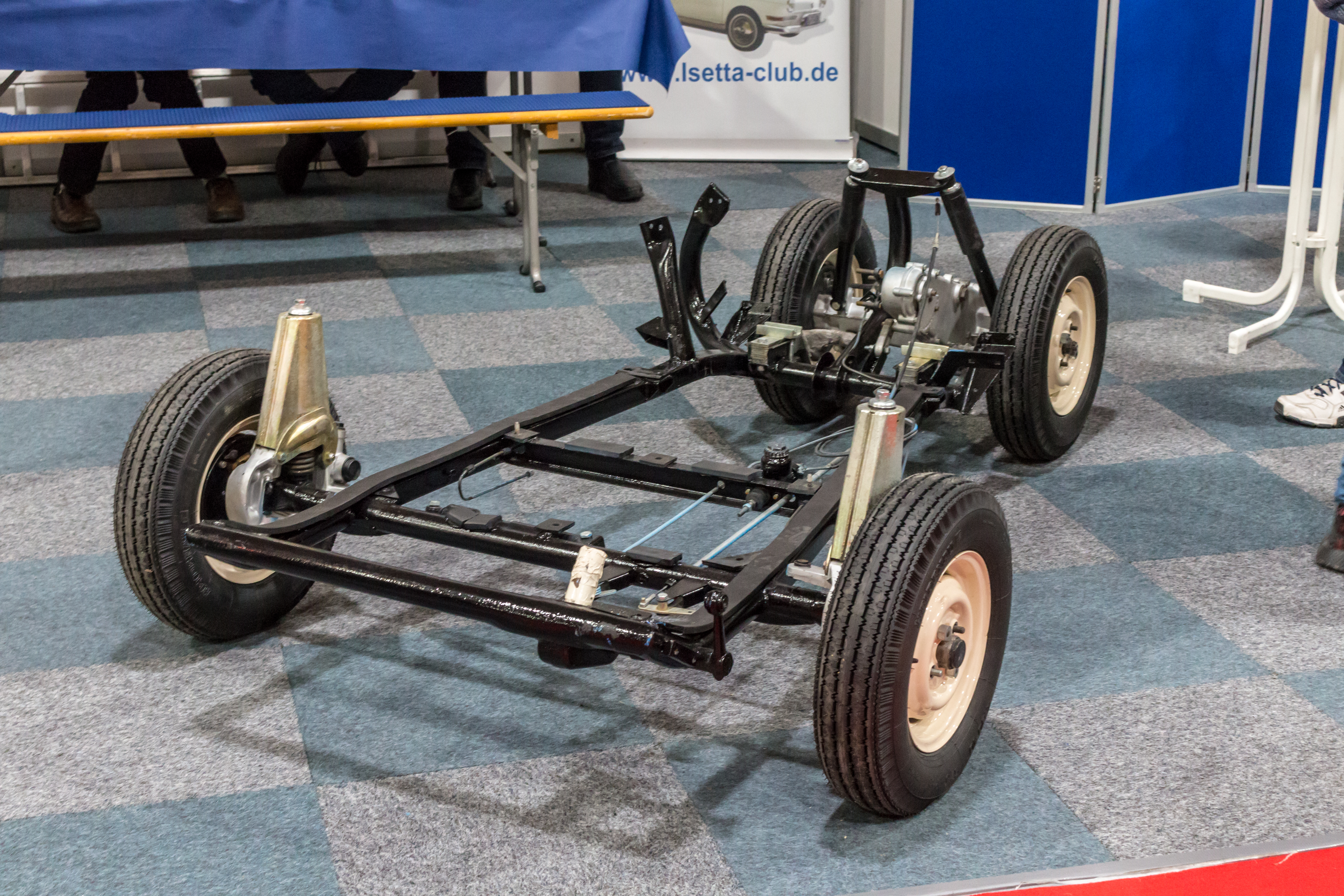 BMW, Techno-Classica 2018, Essen